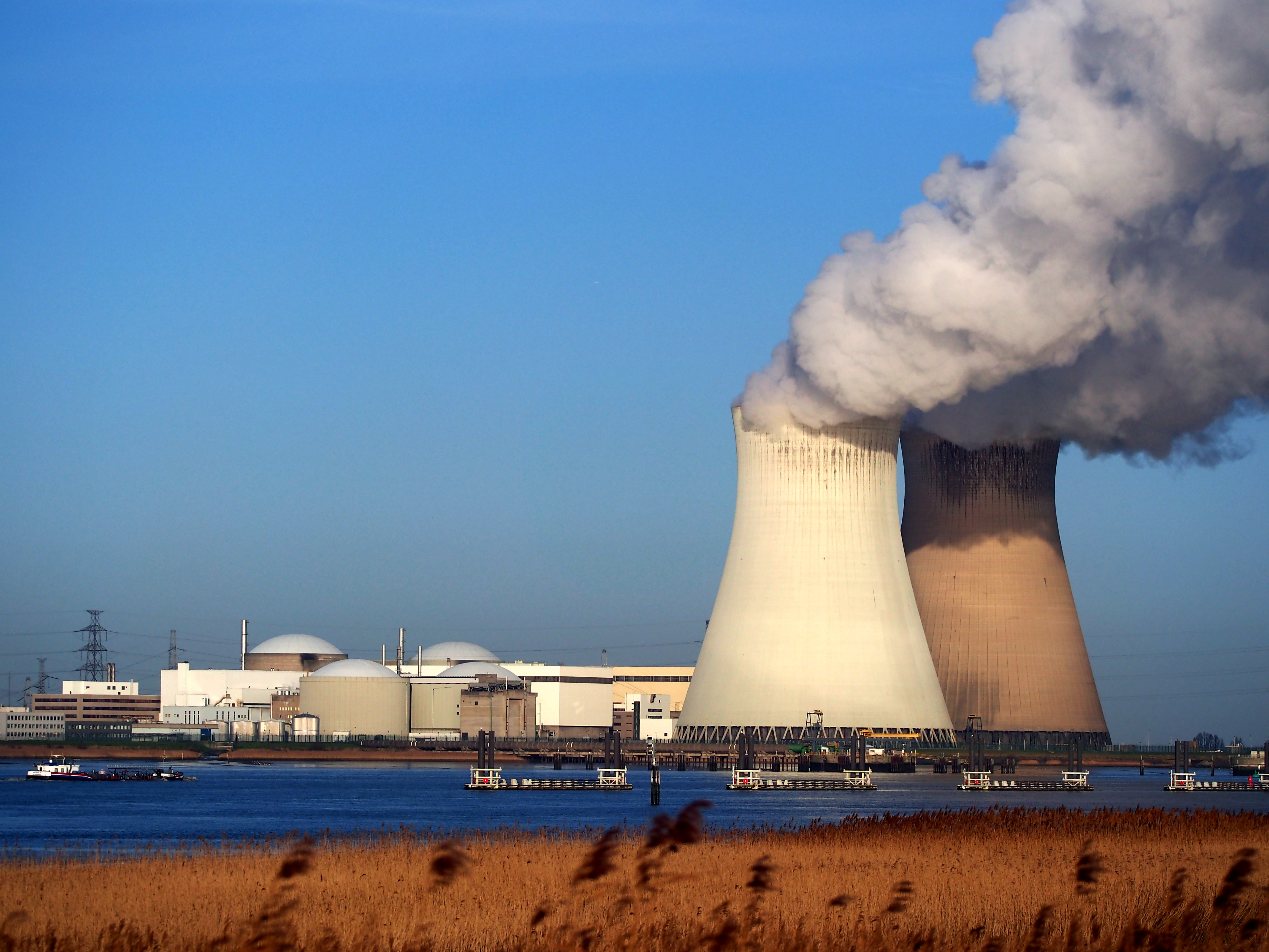 Nuclear power plant, Doel.